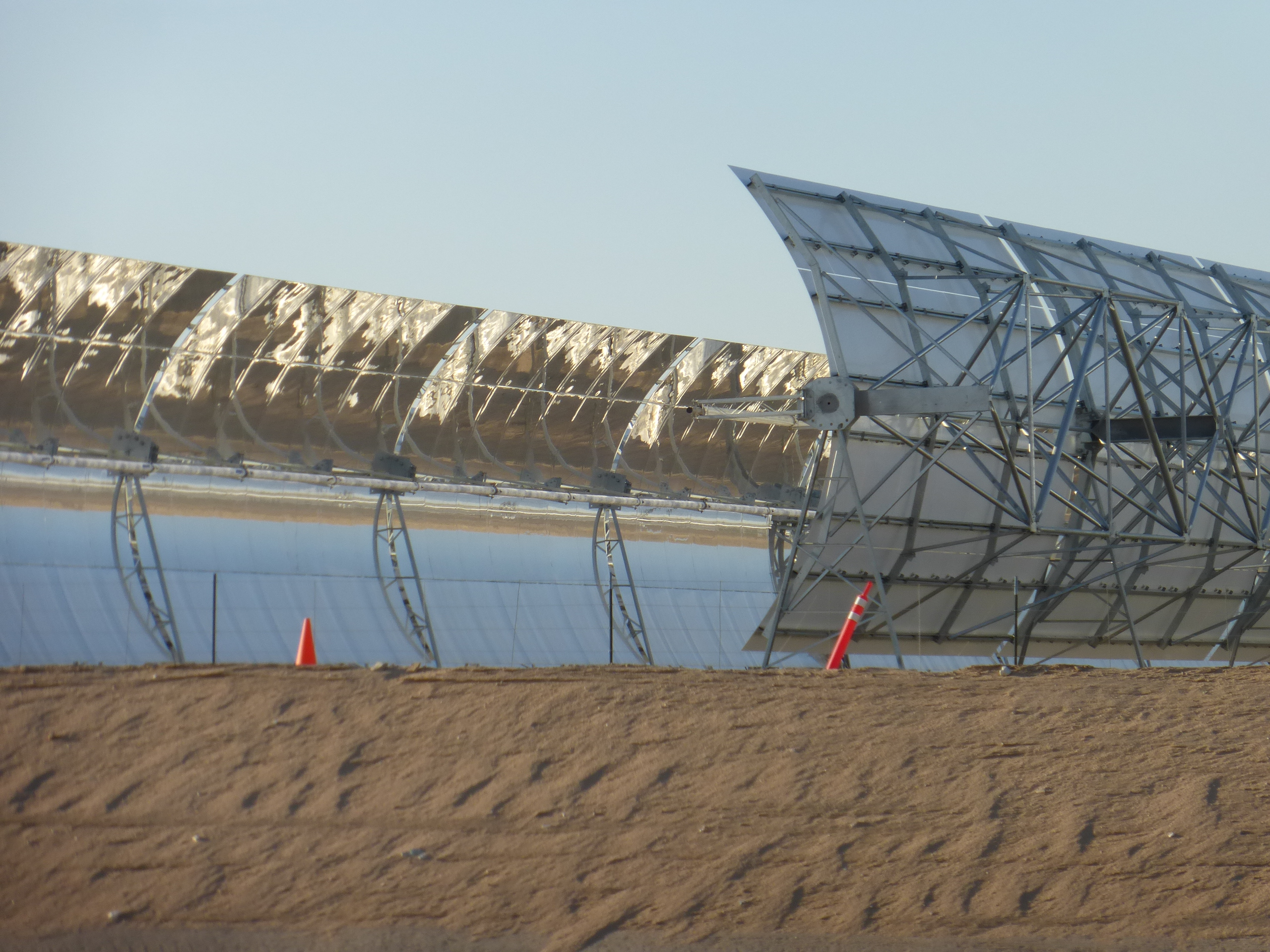 Parabolic troughs used in a concentrated solar power plant at Lockhart near Harper Lake in California (Mojave Solar Project) at the stow position.